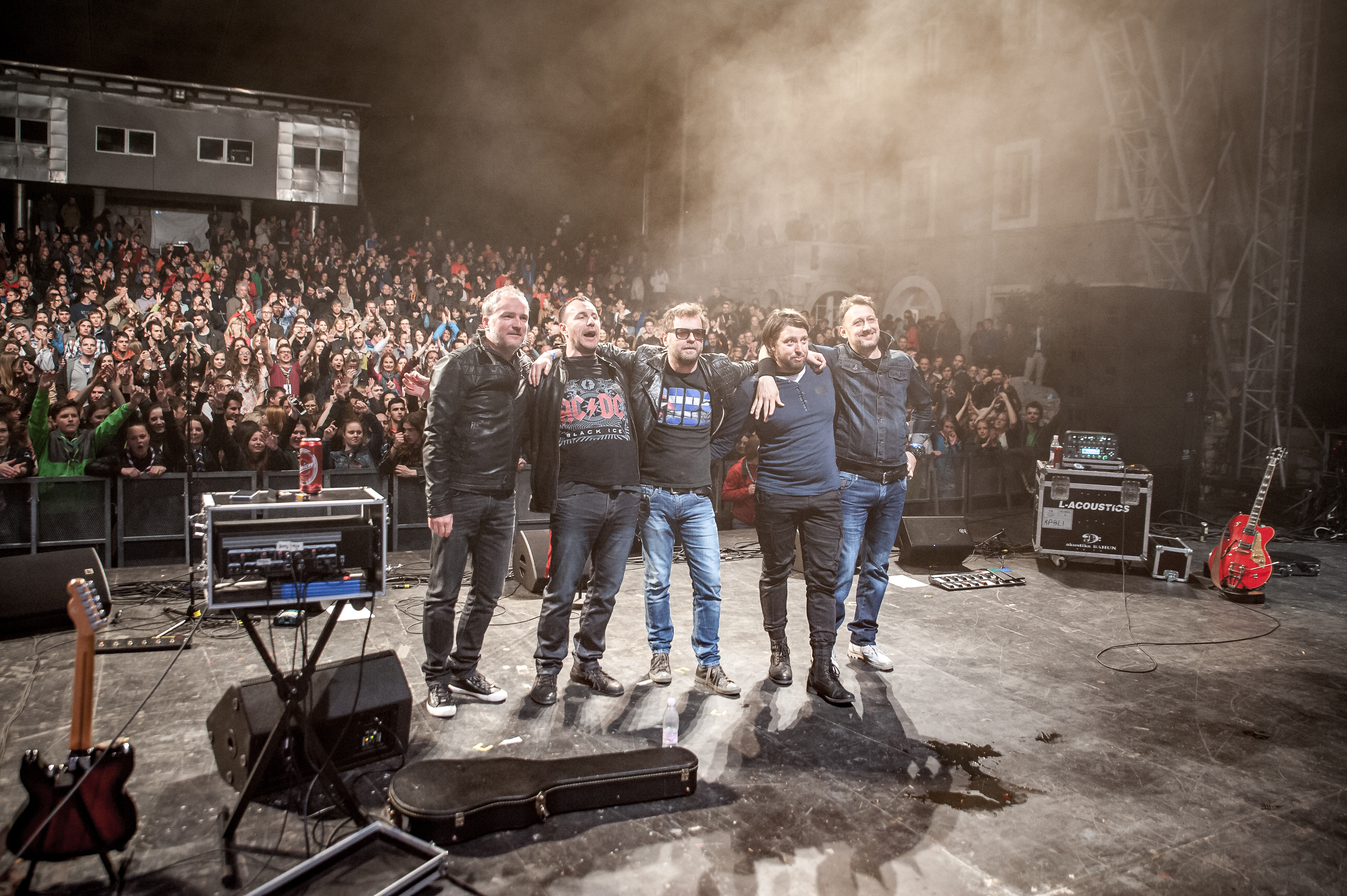 Slovene rock band MI2 after a concert in Križanke, Ljubljana.